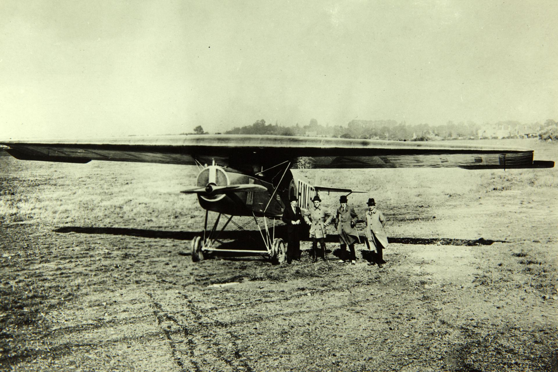 Fokker F.II of KLM with Dutch registration H-NABD. This was one of two F.IIs bought by the airline; they were the first aircraft it owned. This aircraft has the F.II's original round radiator and probably also its original 185 hp (138 kW) BMW IIIa engine. (H-NABD was registered on 13 September 1920, so this photo cannot precede that date, but its engine was soon replaced by a Siddeley Puma with a bigger radiator, so this photo must be near the start of its career.) Fokker, F.II Catalog #: 01_00080305 Title: Fokker, F.II Corporation Name: Fokker Additional Information: Germany Designation: F.II Tags: Fokker, F.II Repository: San Diego Air and Space Museum Archive